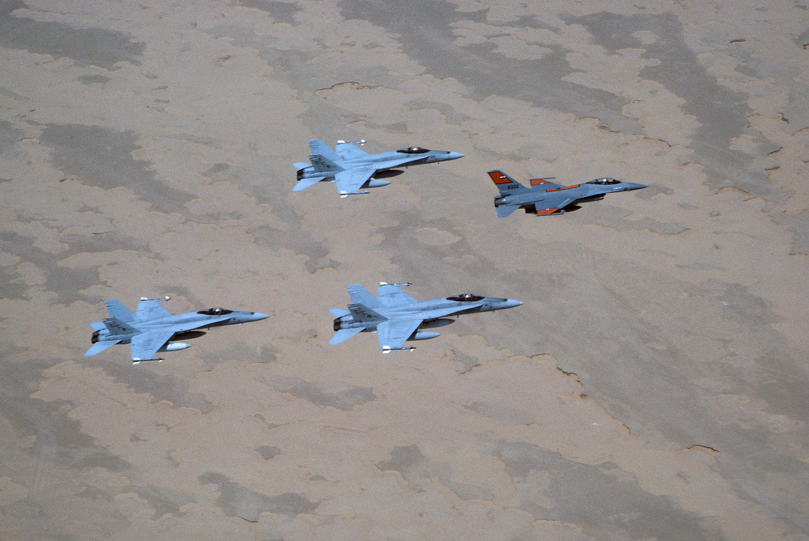 An Egyptian F-16 Fighting Falcon leads a formation of three U.S. Marine Corps F/A-18A Hornet aircraft from Mairne Fighter Attack Squadron 531 (VMFA-531), Marine Aircraft Group II (MAG-11), during the multinational joint service Exercise BRIGHT STAR '85. DF-ST-86-08035